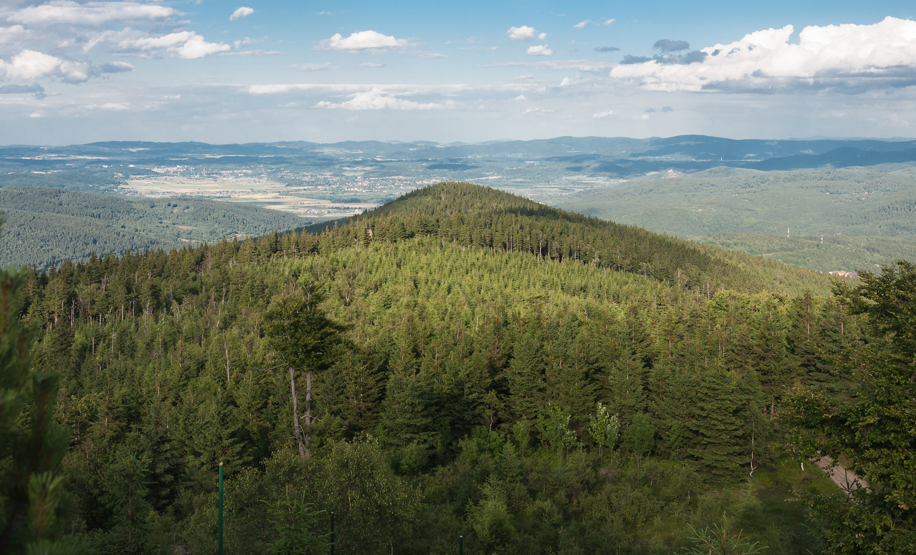 Czarna Góra, Jizera Mountains, Sudetes